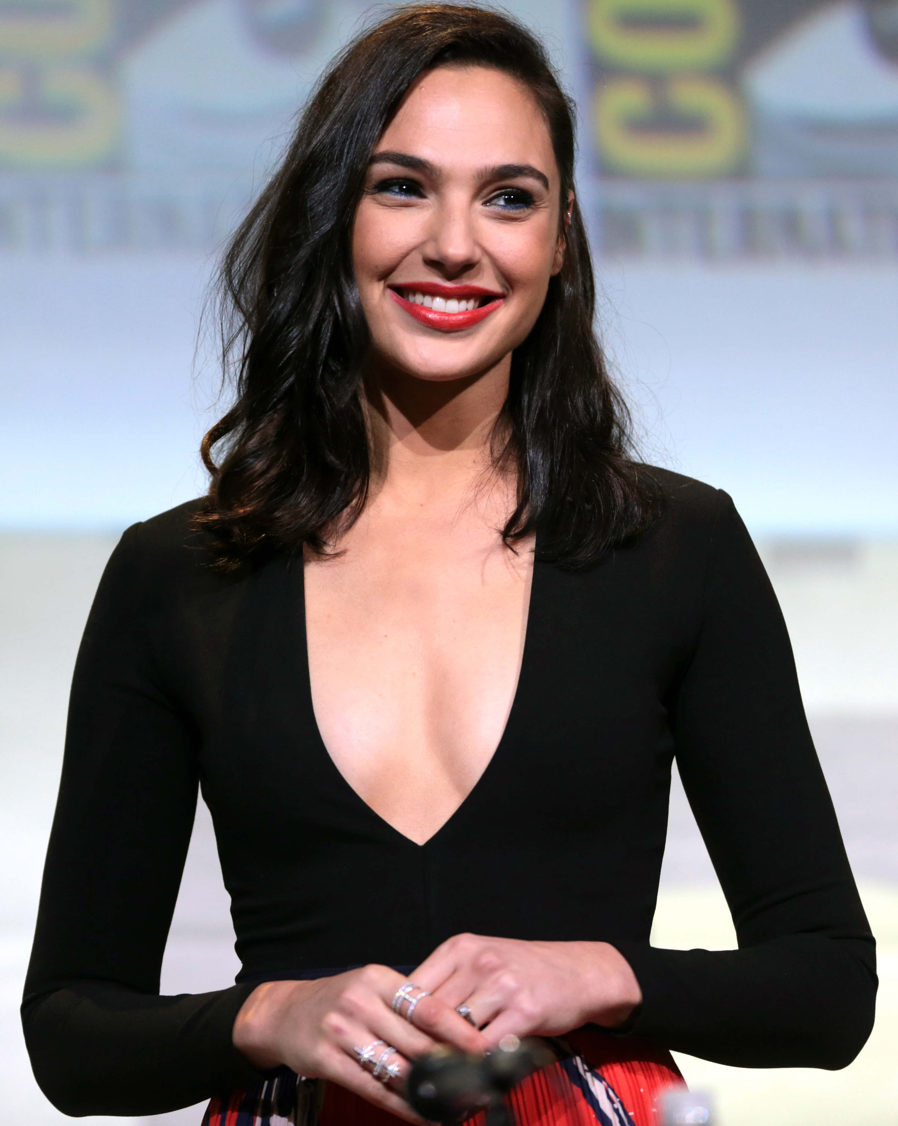 Gal Gadot speaking at the 2016 San Diego Comic-Con International in San Diego, California.